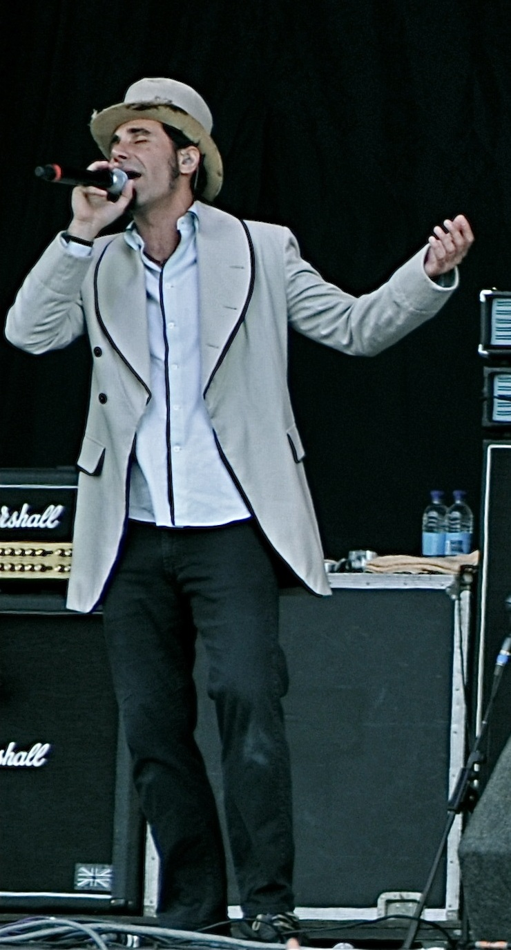 Reading Festival 2008